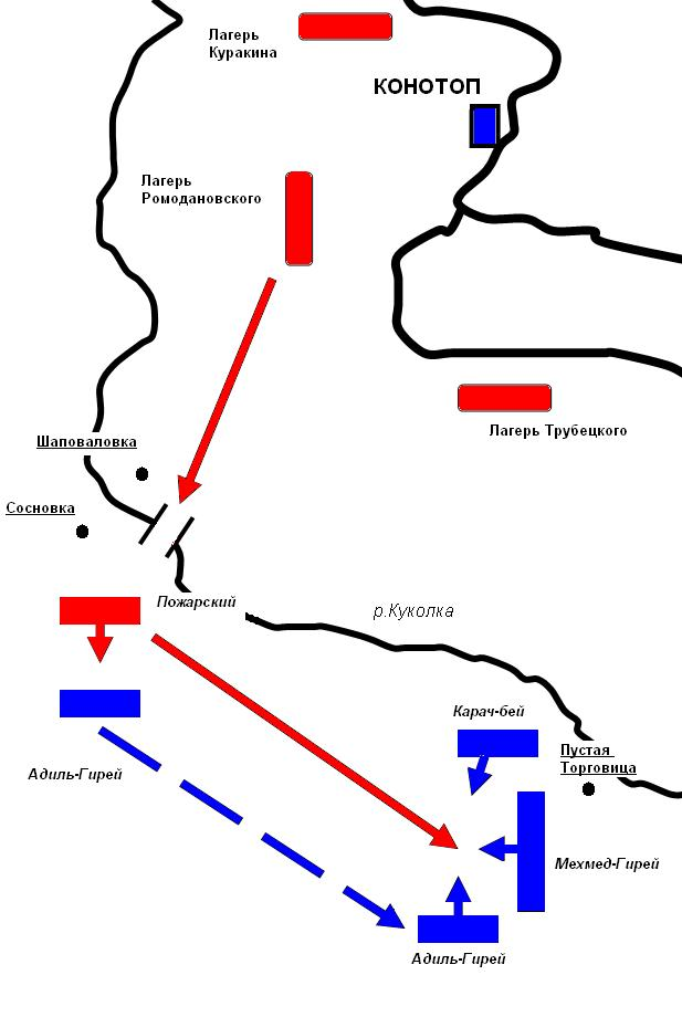 Battle of Konotop. The first stage